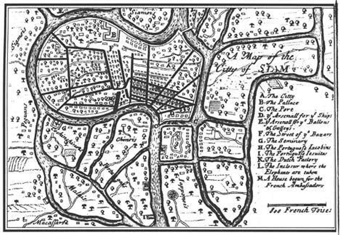 17th century map of Ayutthaya — the capitol city (1350-1767) of the Siamese Ayutthaya Kingdom.